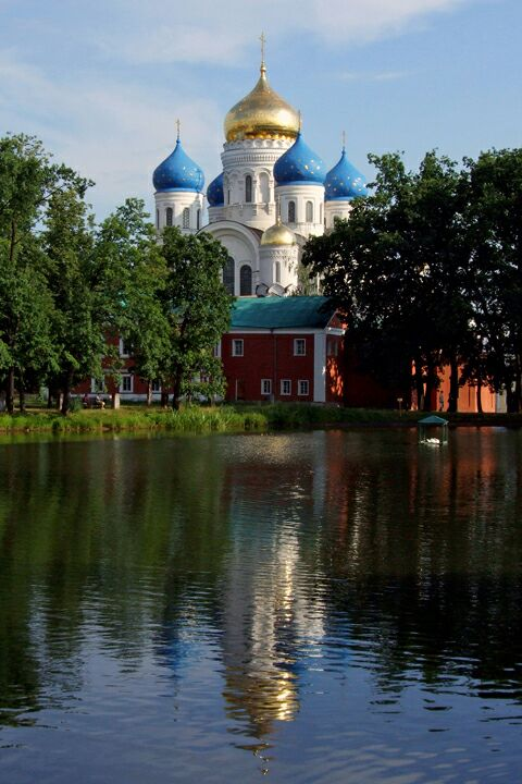 Nikolo-Ugresh monastery